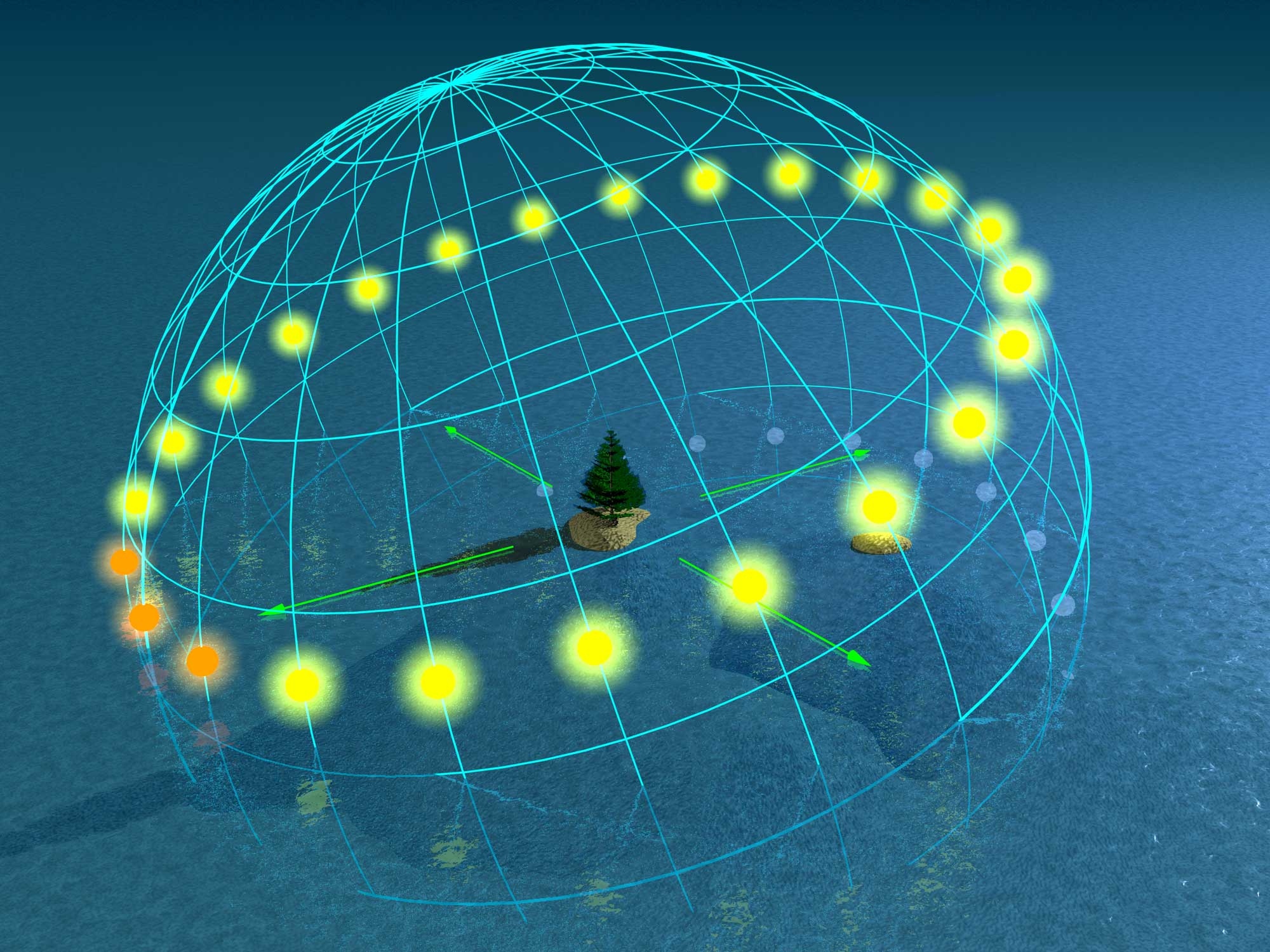 The day arc of the Sun, every hour, in the two solstices as seen on the celestial dome, from 70° latitude. Also showing 'twilight suns' down to -18° altitude.